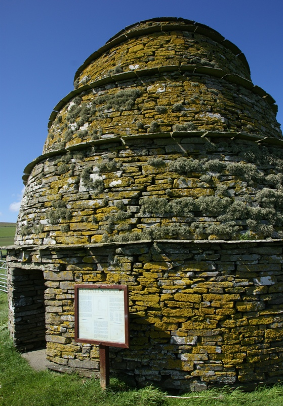 Rendall Doocot, Mainland, Orkneys, Scotland